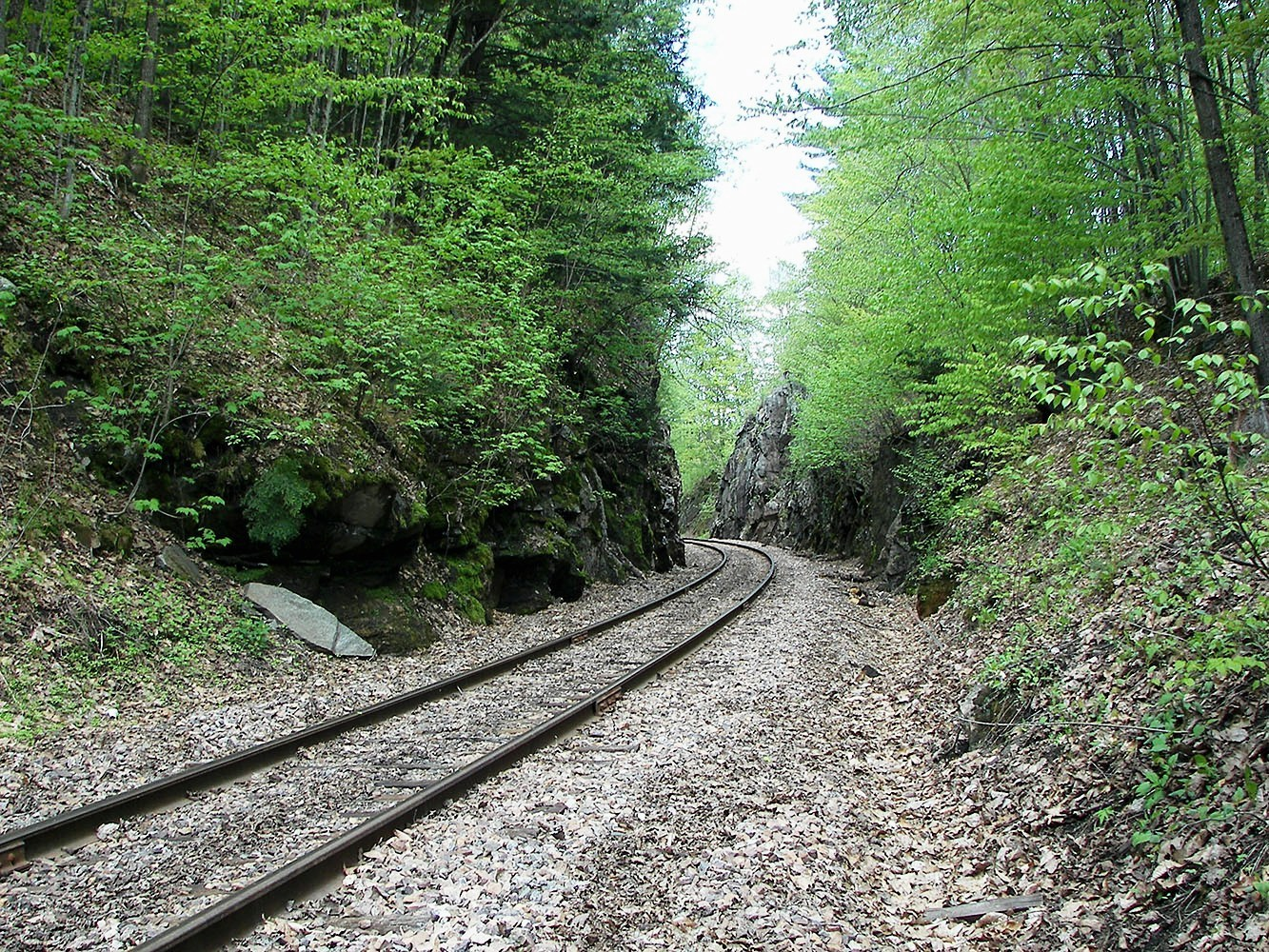 North-facing view of "cut" through rock along the former Rutland & Burlington Railroad, 3/4 mile south of Cavendish, Vermont. Brain-injury survivor Phineas P. Gage (1823–1860) met with his accident while setting an explosive charge either here or at a similar cut nearby (see Malcolm Macmillan, An Odd Kind of Fame: Stories of Phineas Gage, p. 27).